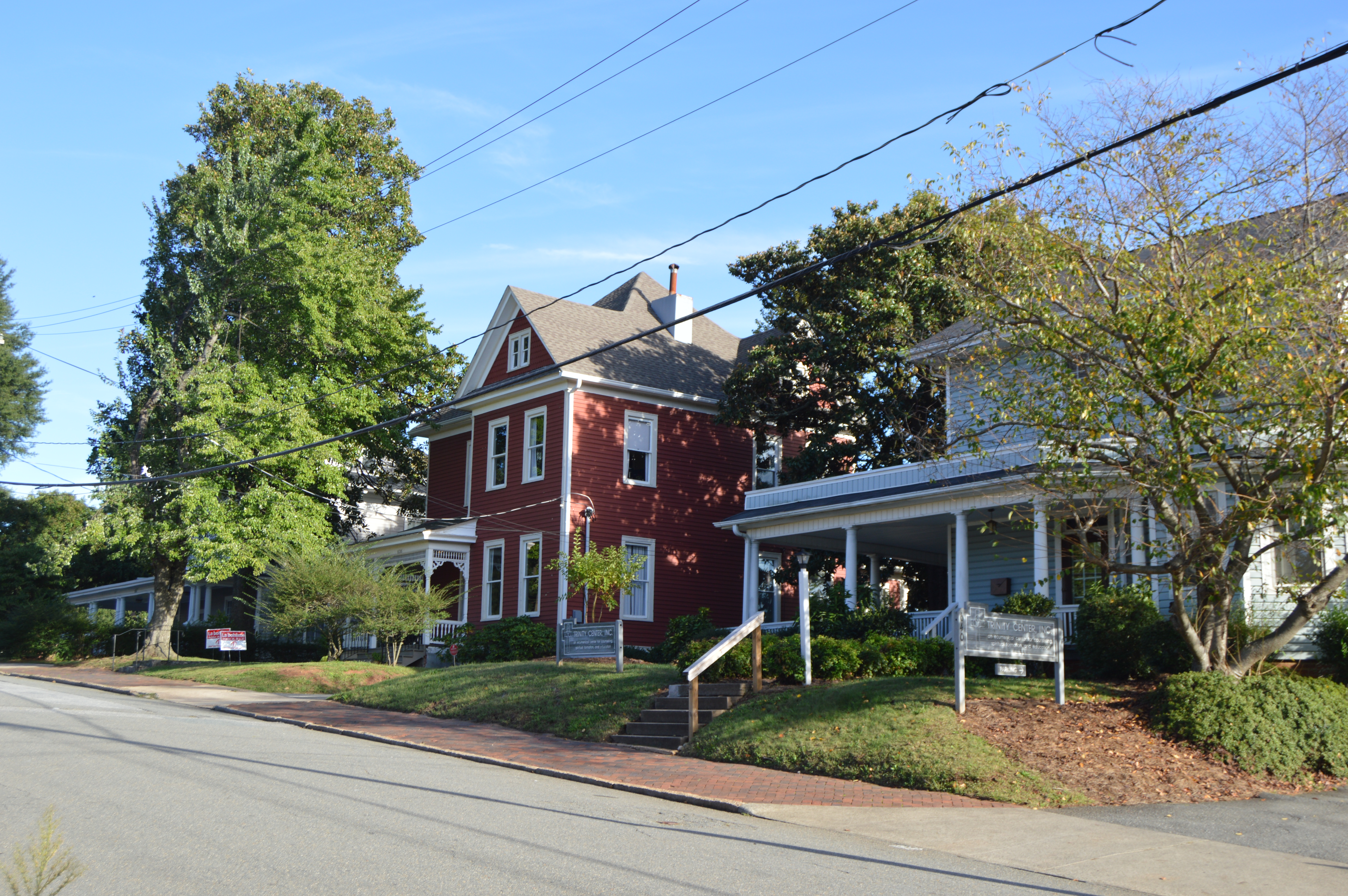 Houses on the southern side of the 600 block of Holly Avenue in Winston-Salem, North Carolina, United States. This block is part of the Holly Avenue Historic District, a historic district that is listed on the National Register of Historic Places.